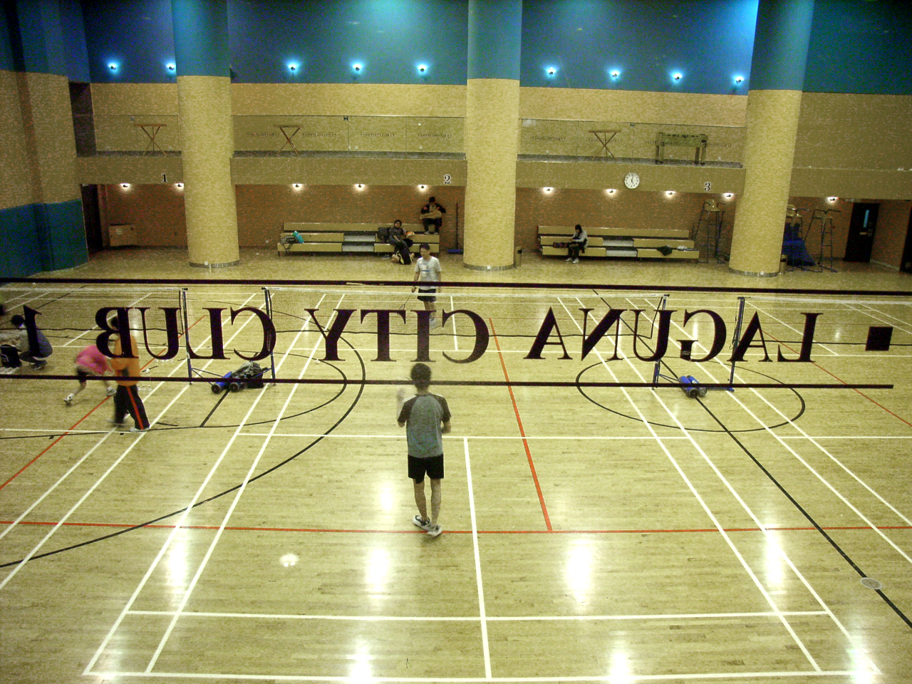 觀塘麗港城 屋苑會所